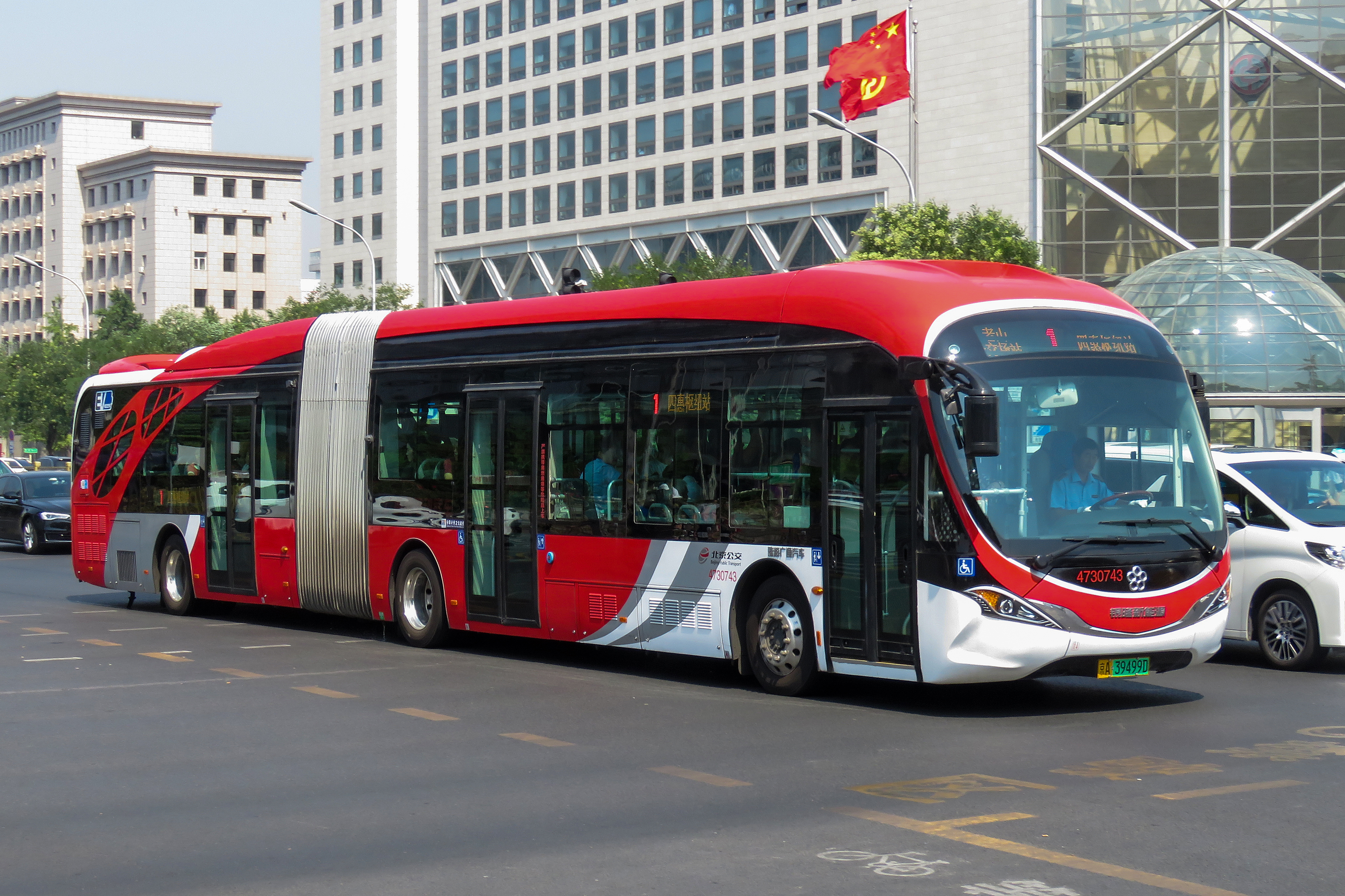 Here we got this Zhonghuamen bus. Someone said it has something different, probably a prototype. 30743 is the TMIS code of Zhonghuamen Railway Station in Nanjing.